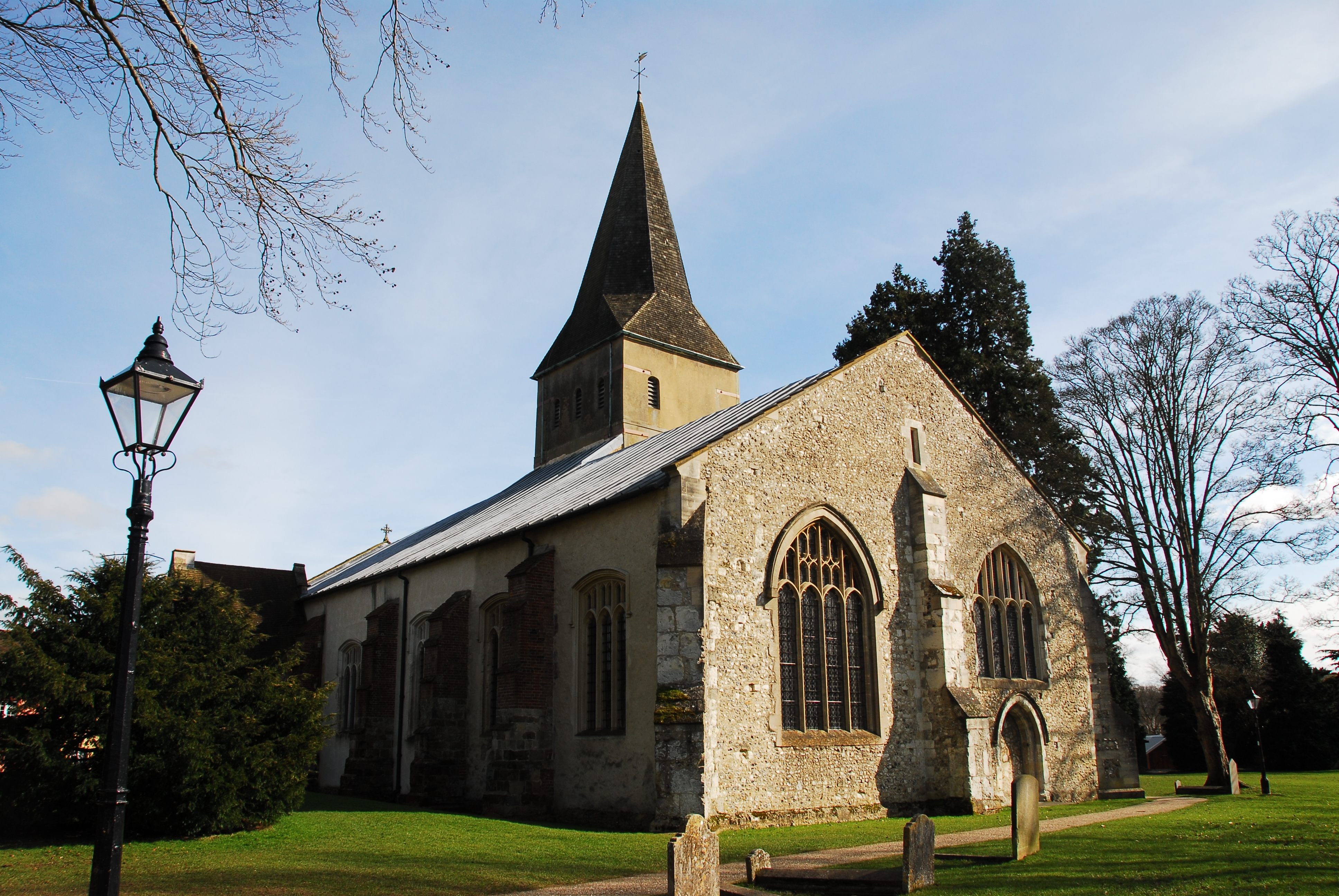 Church of St Lawrence, Alton, from the north-west